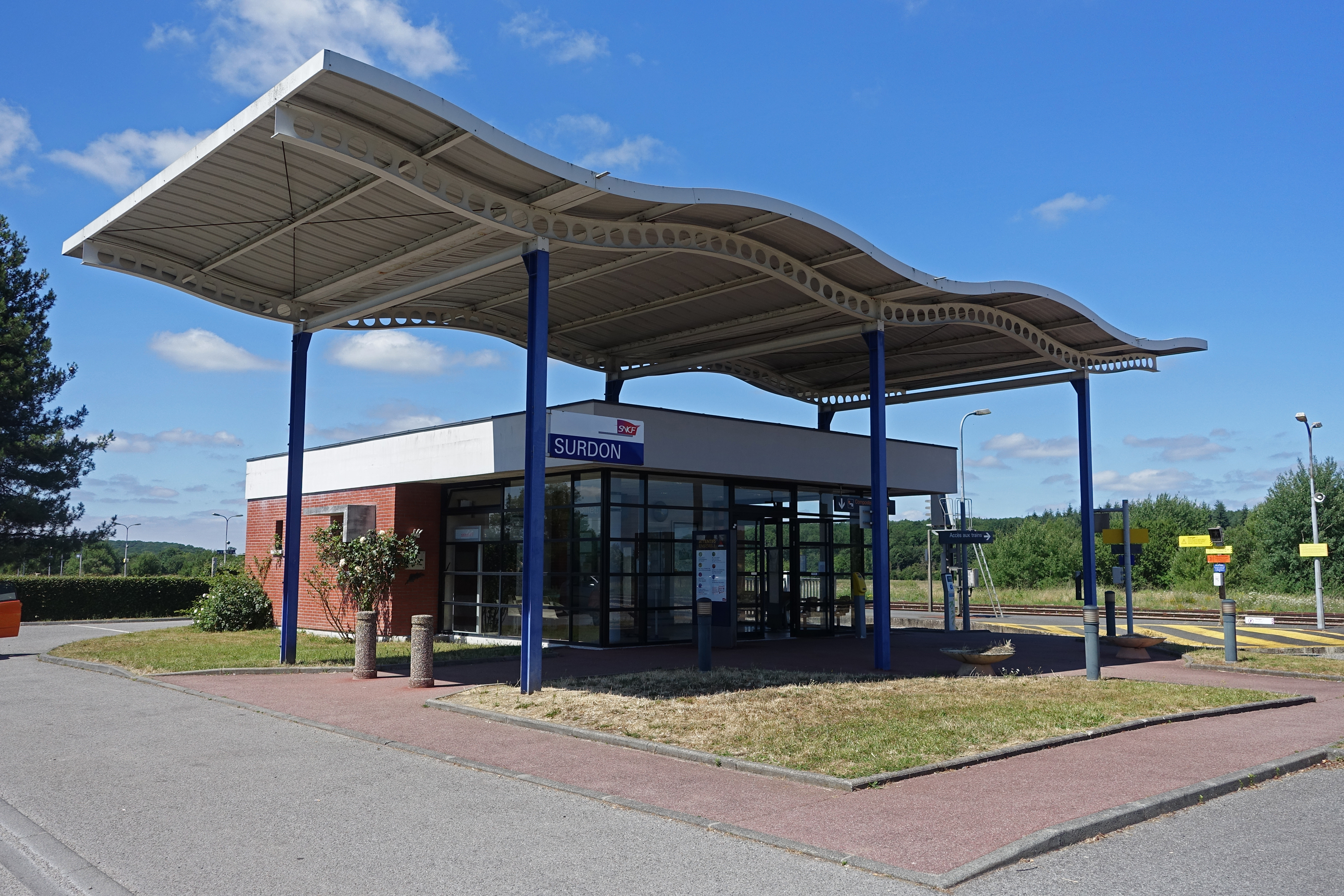 Buiding of Surdon station.